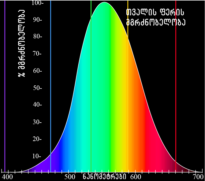 Eye sensitivity diagram. The colored vertical lines are the wavelengths of some common laser colors. The yellow line is the 589nm sodium line.